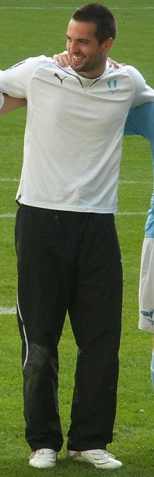 Dusan Melicharek of Malmö FF